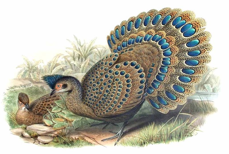 Malayan Peacock-Pheasant (Polyplectron malacense)